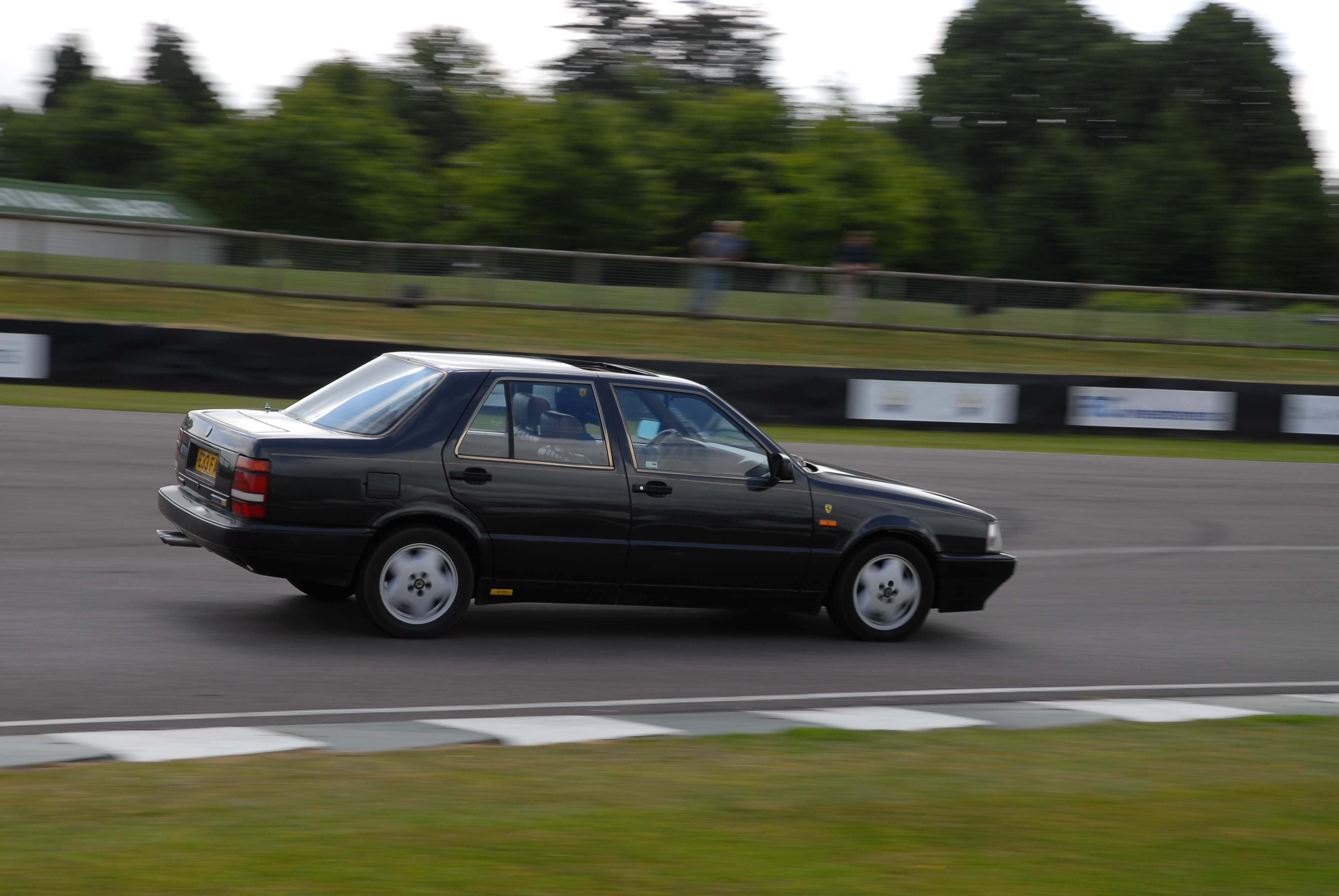 Lancia Motor Club Goodwood Track Day May 21st 2011 THP_3100